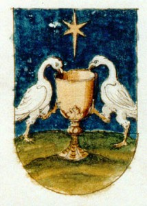 Escudo de la Orden de la Camáldula, dibujado en 1605 en Insegne di varii prencipi et case illustri d'Italia e altre provincie (Módena, 1605) Source Author Giacomo Fontana